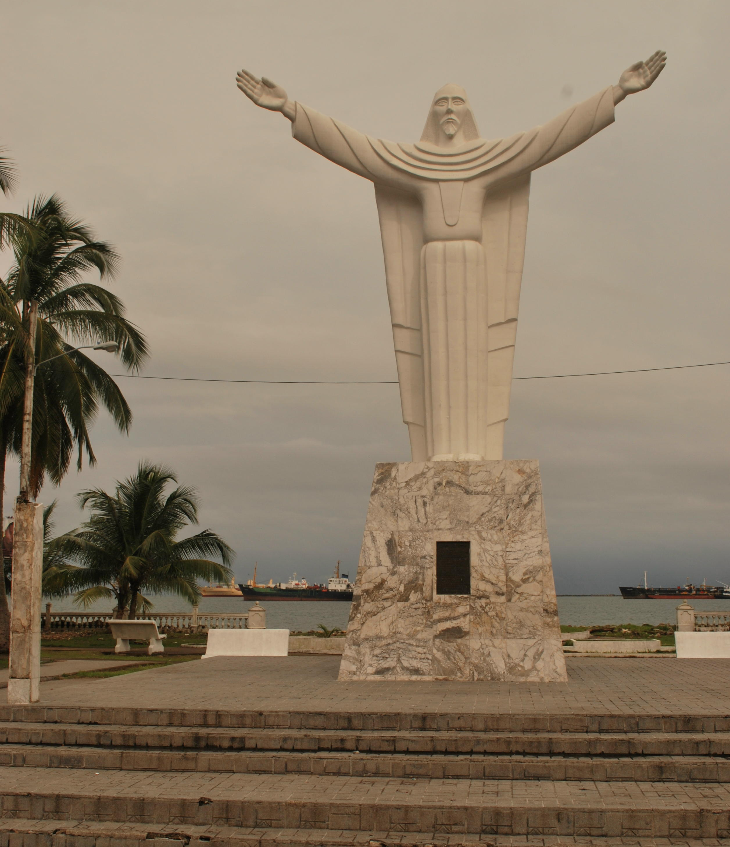 Statue of Cristo Redentor, Christ the redeemer, at the end of the Avenida Central, Colón, Panama.